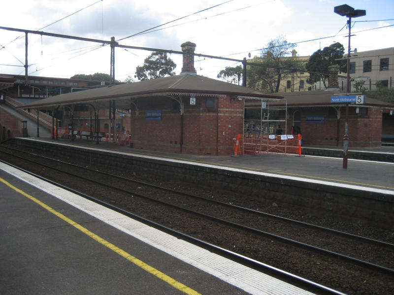 Heritage listed station buildings at North Melbourne railway station.